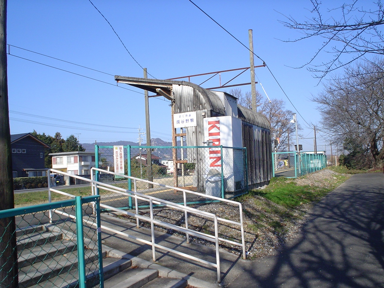 Nagatanino Station in shiga pref, japan